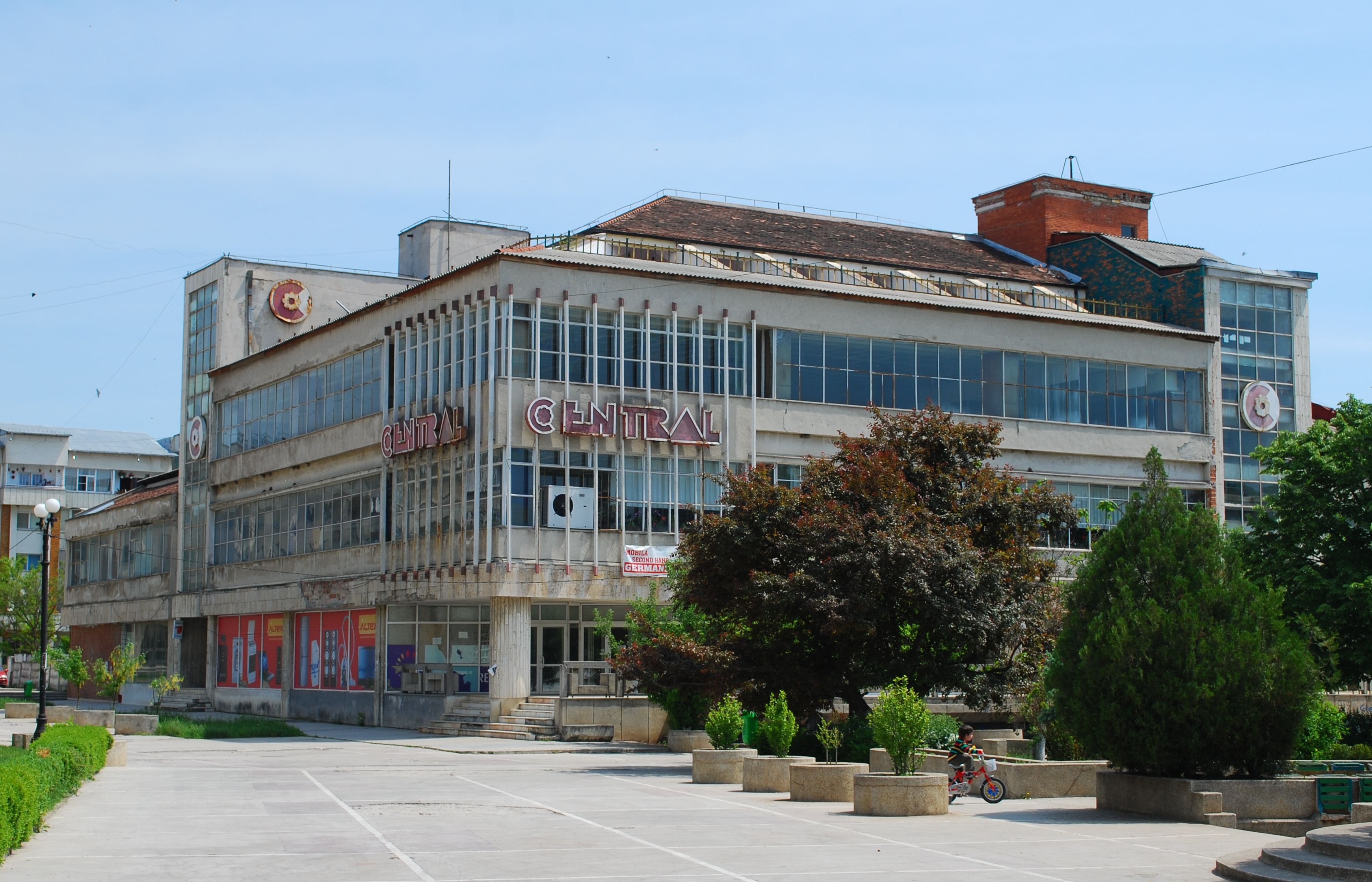 The abandoned "Central" mall in Caracal, RomaniaRomână: Magazinul „Central” din Caracal, România.